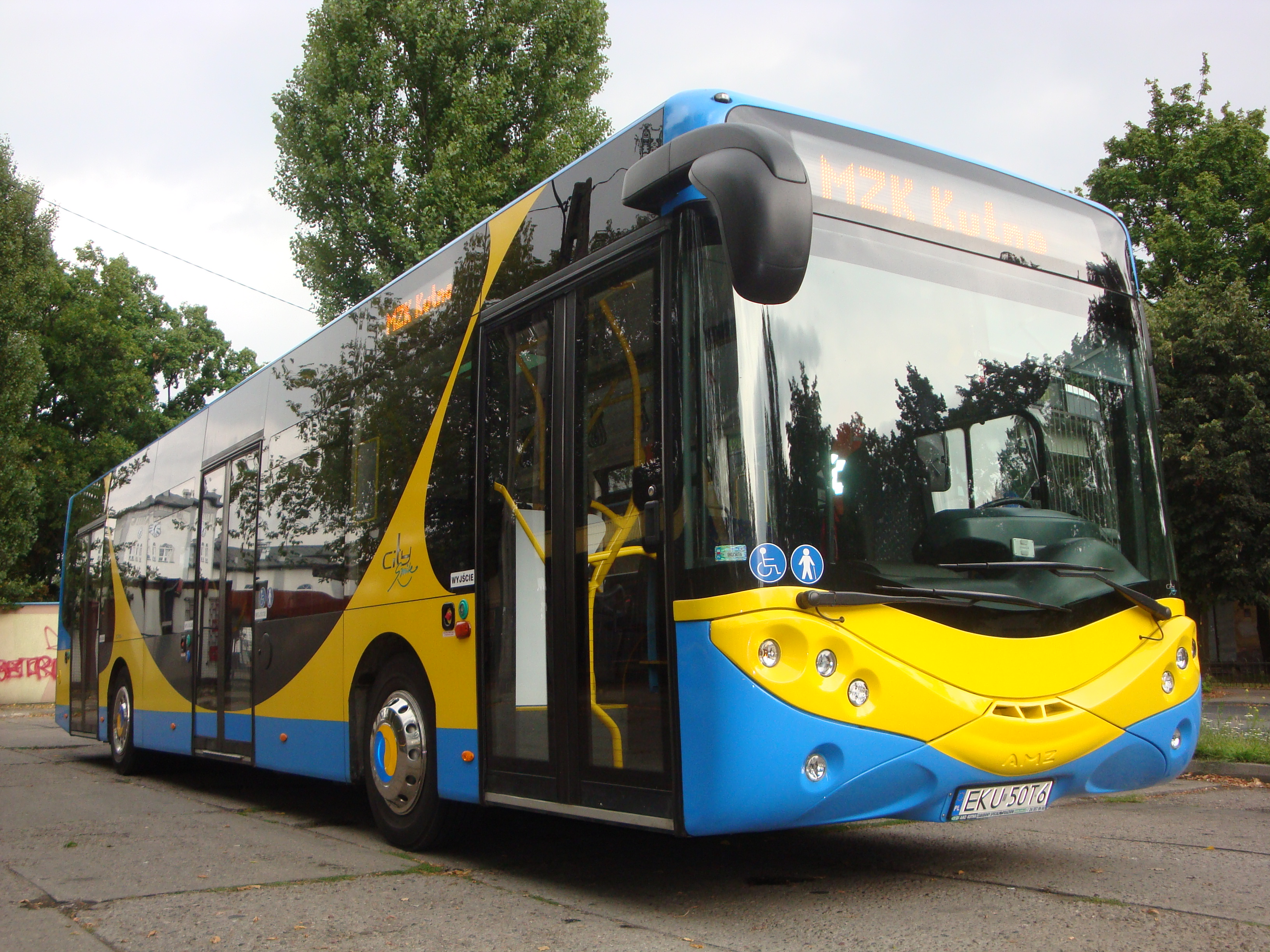 AMZ CS12LF city bus (reg. EKU 50T6) in Kutno, Poland. Built 2011, MZK Kutno operator.